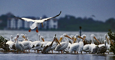 American white pelican, public domain from USFWA Summary Title: White Pelicans at Pelican Island NWR Creator: Gentry, George Source: WV-PelicanIsland-1376 Publisher: U.S. Fish and Wildlife Service Contributor: NATIONAL CONSERVATION TRAINING CENTER-PUBLICATIONS AND TRAINING MATERIALS Rights: (public domain) Subject: Pelican Island National Wildlife Refuge, Florida Abstract: White pelicans gather at Pelican Island National Wildlife Refuge. Available: March 08 2003 Issued: March 08 2003 Modified: May 10 2004